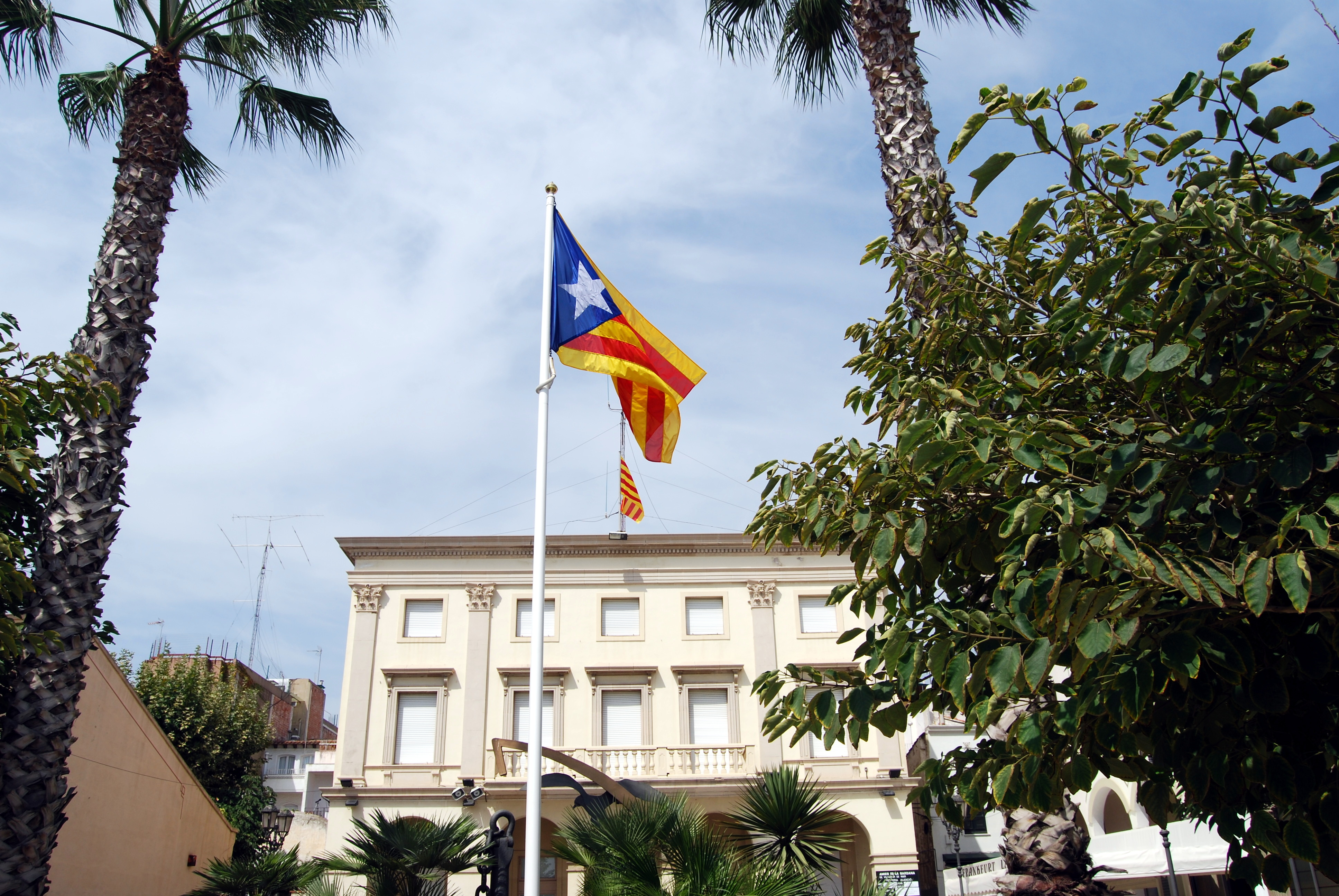 Estelada at Vilassar de Mar's Town Hall